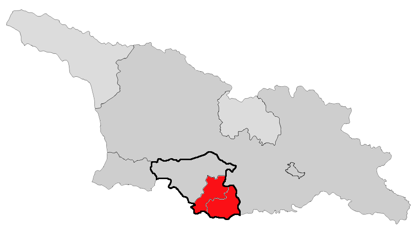 Akhalkalak and Ninotsminda districts of Georgia's Samtskhe-Javakheti province with 90%+ Armenian population